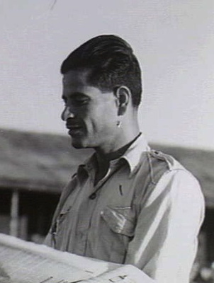 Bayt Jirja newspaper seller in 1941, cropped from original file